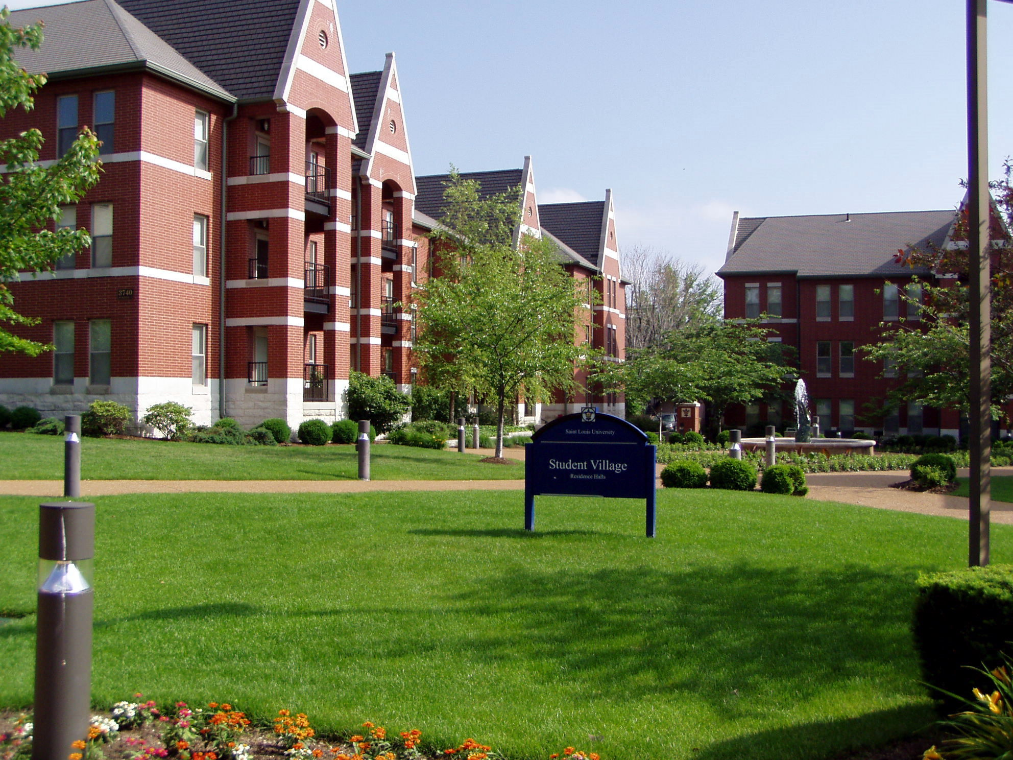 Student Village at Saint Louis University.